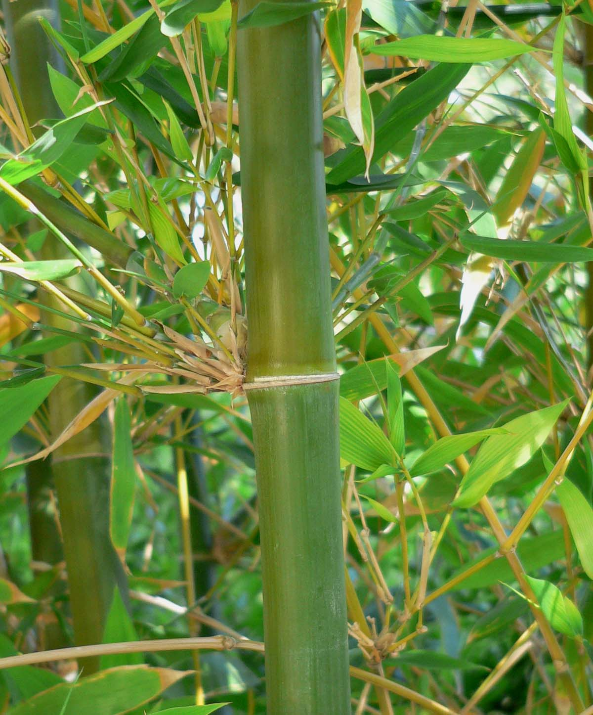 Photo of Bambusa oldhamii at the Springs Preserve garden in Las Vegas, Nevada